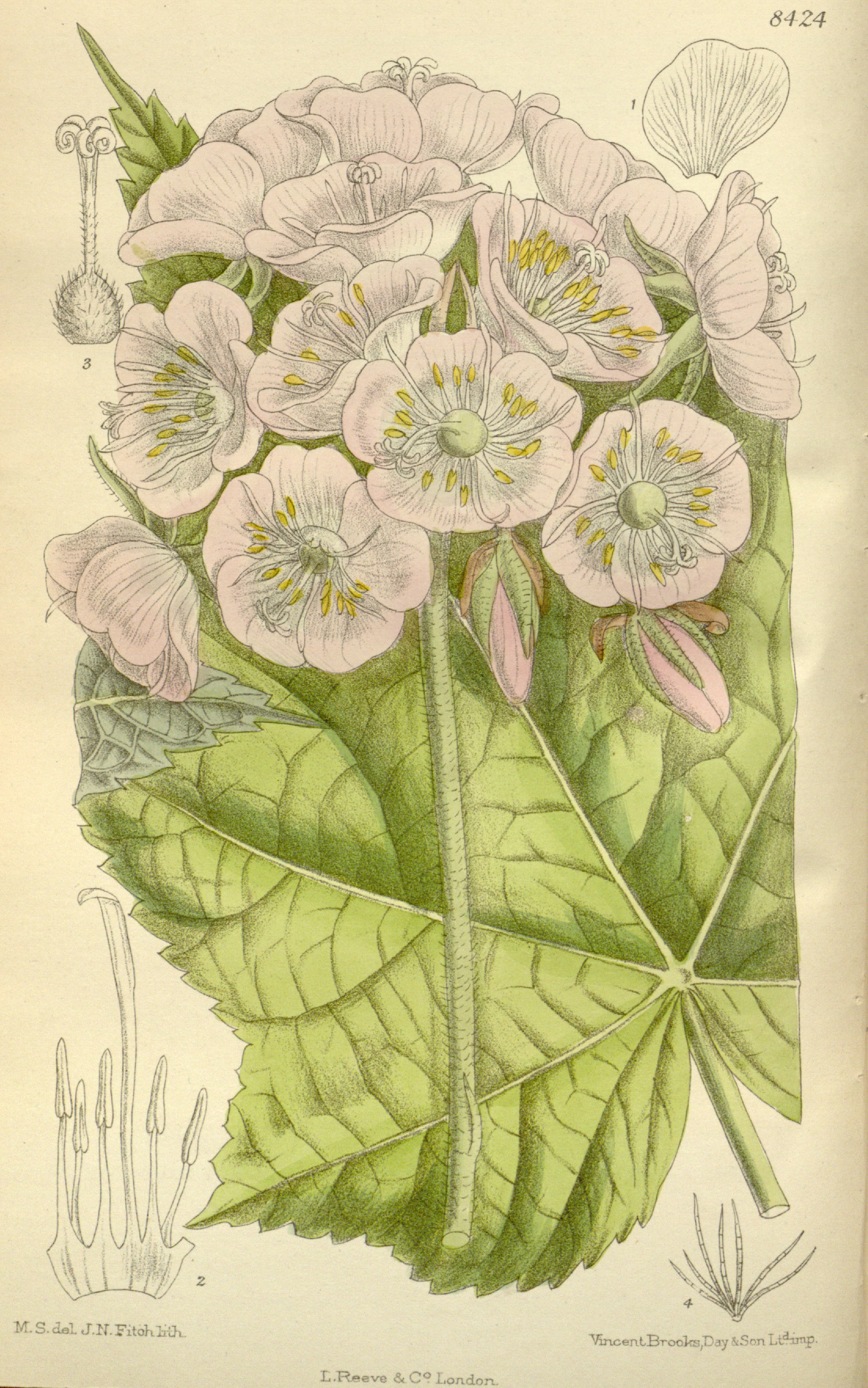 Dombeya burgessiae (= Dombeya calantha), Malvaceae, Dombeyoideae